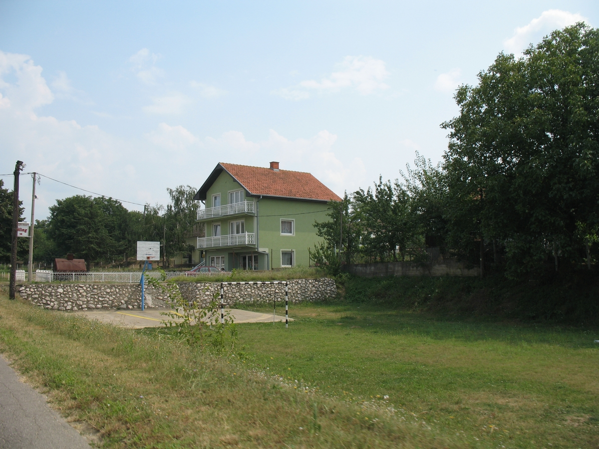 Ponikve in Golubac municipality, Serbia.